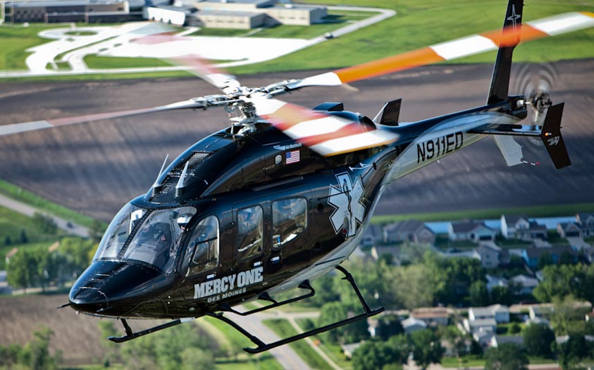 Mercy One Bell 429 EMS